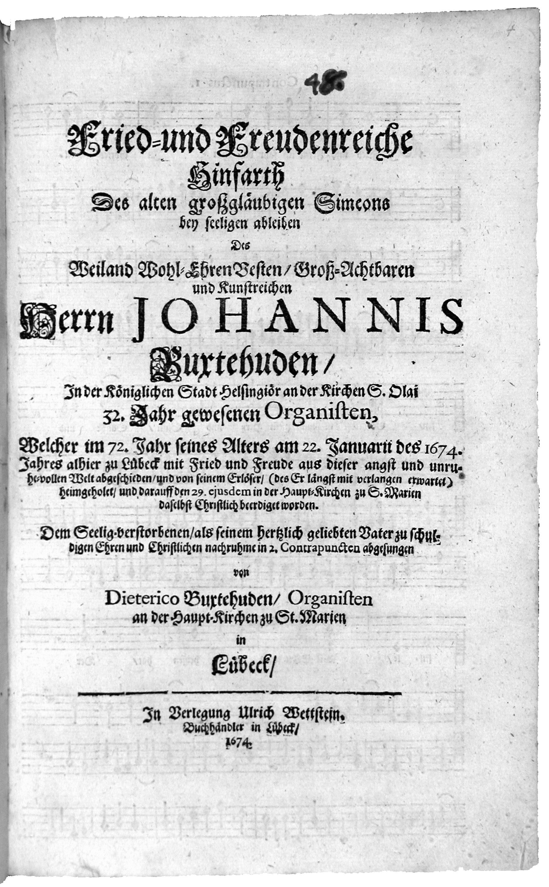 Title page of the composition Fried- und Freudenreiche Hinfarth by Dieterich Buxtehude, published by Edition Güntersberg as Mit Fried und Freud in 2007